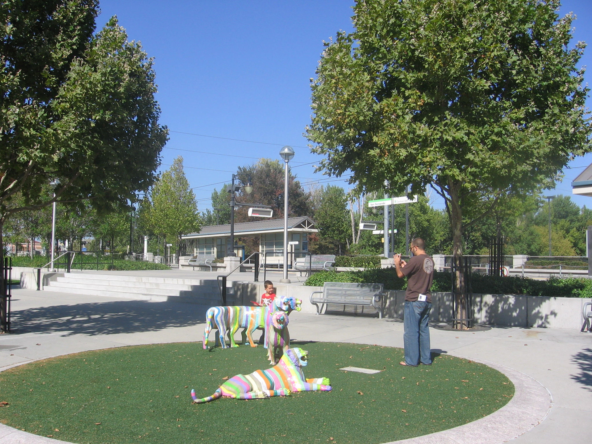 The San Fernando (VTA) light rail station in San José, California, USA.